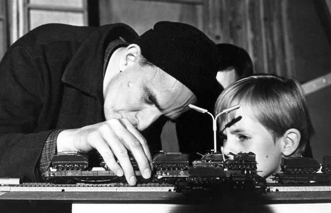 Ingmar Bergman (1918-2007), Swedish stage and film director, and Jörgen Lindström (1951-), actor. Photo: During the production of The Silence (Tystnaden), 1963. Svensk Filmindustri (SF) press photo, Photographer unknown.